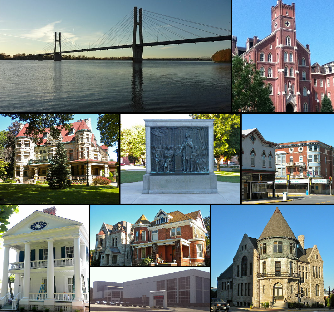 A montage of various locations in Quincy, Illinois. From Left to right: The Bayview Bridge, Francis Hall on the Quincy University campus, the Quincy Museum, a mural depicting the Lincoln-Douglas debates in downtown Quincy, the South Side German Historic District, John Wood Mansion, the Northwest Historic District [upper photo], the Oakley-Lindsay Center [lower photo], the Gardner Museum of Architecture and Design. Other information Most pictures were uploaded into the Wikipedia Commons or uploaded by myself. The Bayview Bridge picture was uploaded by Flickr user Paul Sableman. The Quincy University and OLC pictures were uploaded by myself. The Lincoln-Douglas mural, Quincy Museum, Northwest historic district, John Wood Masnion, and Gardner Museum pictures were uploaded by Wikipedia user smallbones. Changed the license to cc-by-2.0 from cc-0 because the bridge photo was licensed cc-by-2.0. All the rest were licensed cc-0 or public domain including mine (User:Smallbones), and strongest license should prevail.